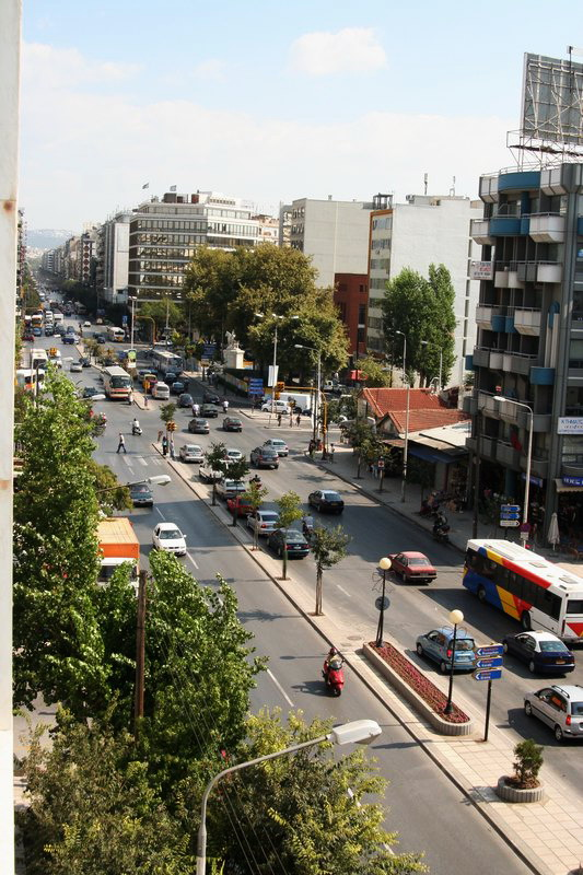 Monastiriou Avenue, in Thessaloniki, Greece. Photo taken in 2006.